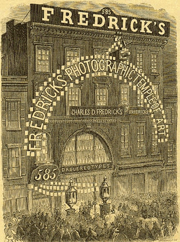 Fredricks' Photographic Temple of Art, Frank Leslies Illustrated News, 1858. "Fredricks' Photographic Gallery, 585 and 587 Broadway, was brilliantly illuminated with colored lanterns. The words "Photographic Temple of Art" were formed by hundreds of lamps, covering a semicircular arch of sixty feet in curve. The windows and balconies of these magnificent Daguerrian rooms were crowded during the day with spectators, almost to the interruption of business. There is no more popular photographic gallery in New York than this, and no where are portraits obtained with greater fidelity (Frank Leslies Illustrated News)."